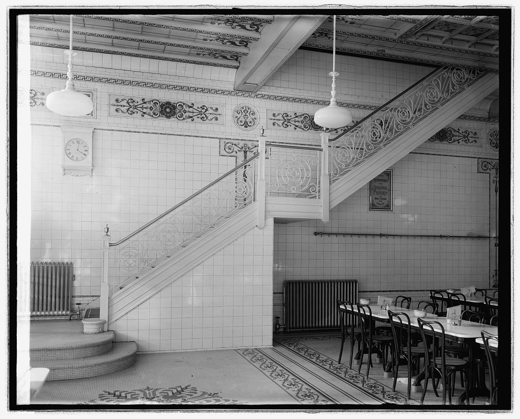 Interior of Childs Restaurant at 1423 Pennsylvania Ave. NW, Washington, DC dated to 1920-1921. Photo by National Photo Company. From collections of Library of Congress